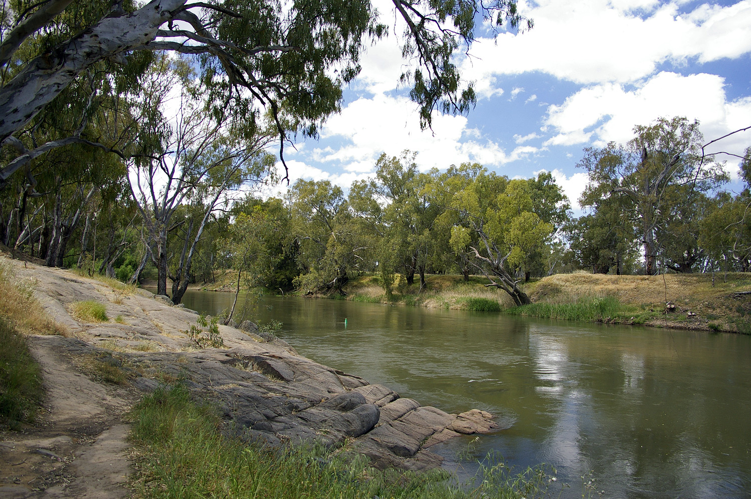 "The Rocks" on the Murrumbidgee River at Wagga Wagga, New South Wales